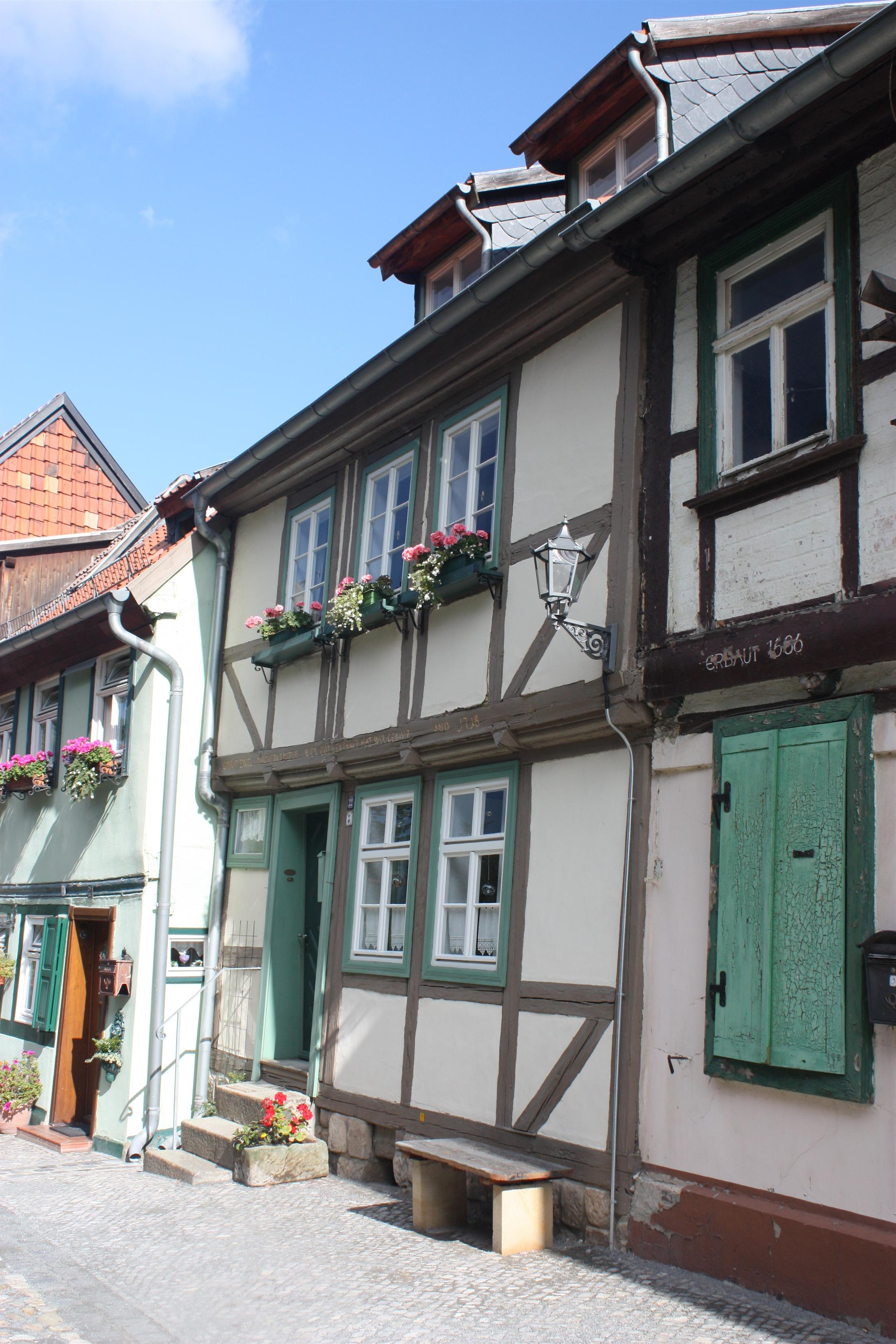 This is a photograph of an architectural monument.It is on the list of cultural monuments of Quedlinburg Quedlinburg Schloßberg